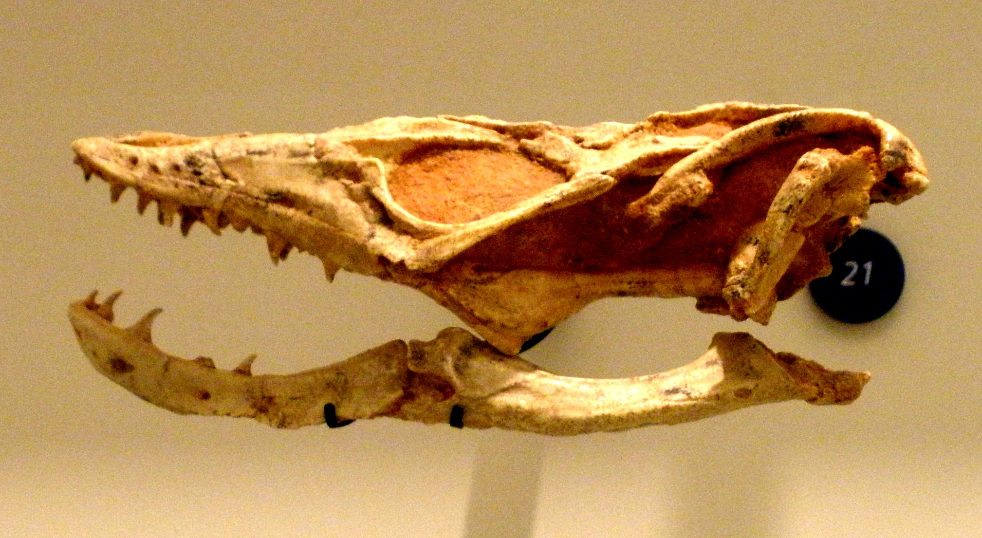 Skull of Estesia mongoliensis, a fossil lizard